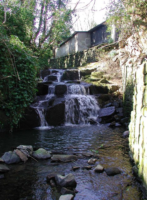 Cottingley Beck waterfall, where two young girls, Frances Griffiths and Elsie Wright, claimed to have taken a photograph of the Cottingley Fairies in 1917.